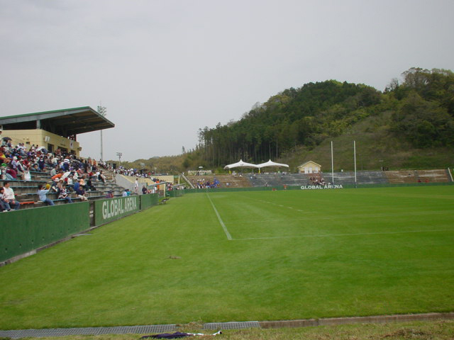 Global Stadium (rugby) at Global Arena, Munakata, Fukuoka prefecture Photo taken by uploader